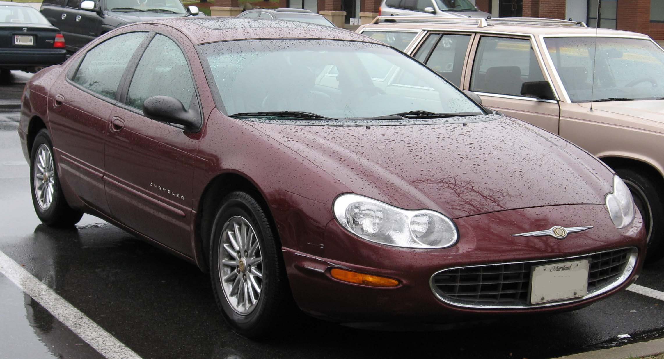 1998-2004 Chrysler Concorde photographed in USA.